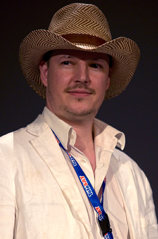 Tom Six